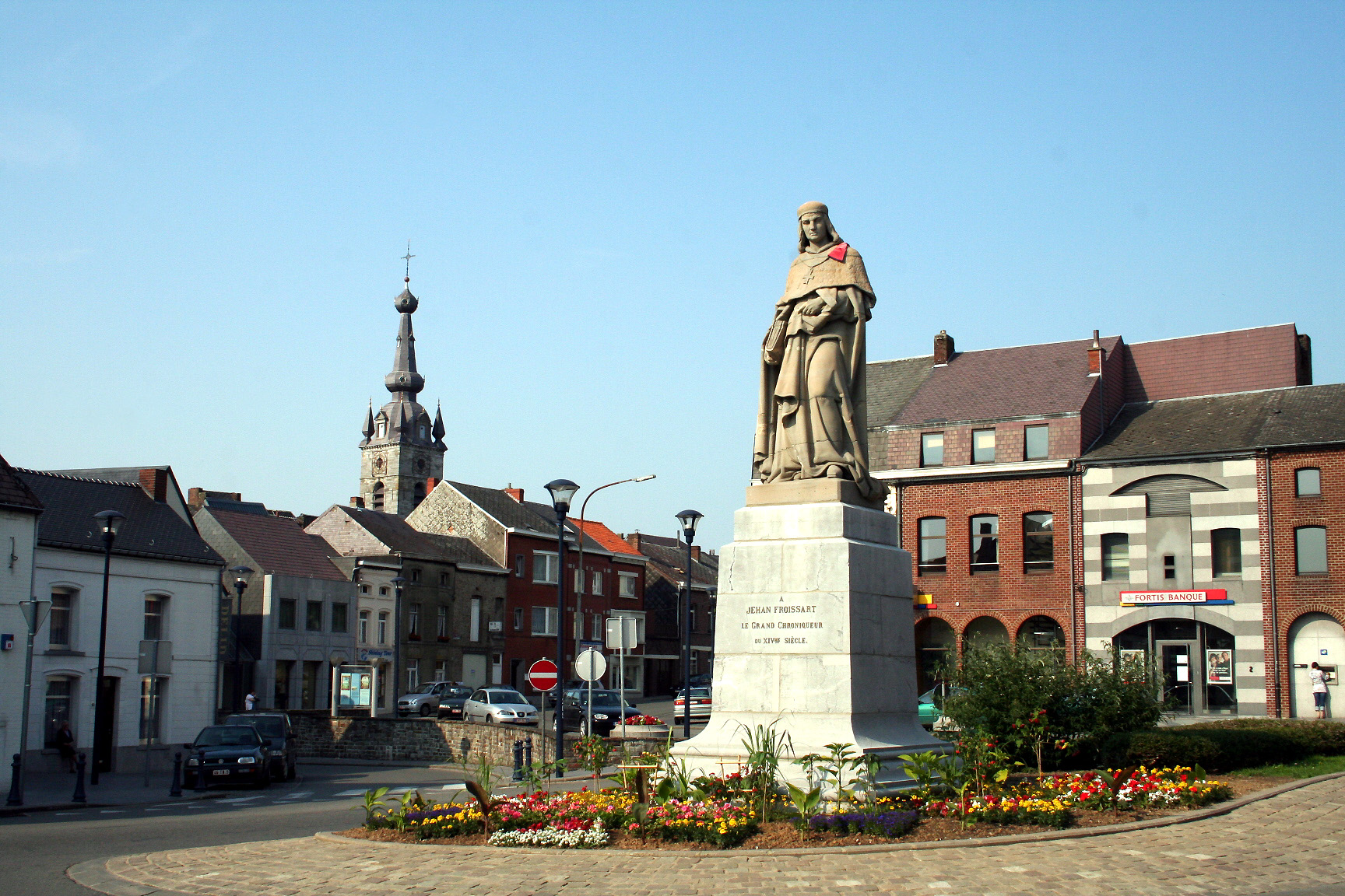 Chimay (Belgium), Place Froissart - Statue of Jehan Froissart (1337-1404).